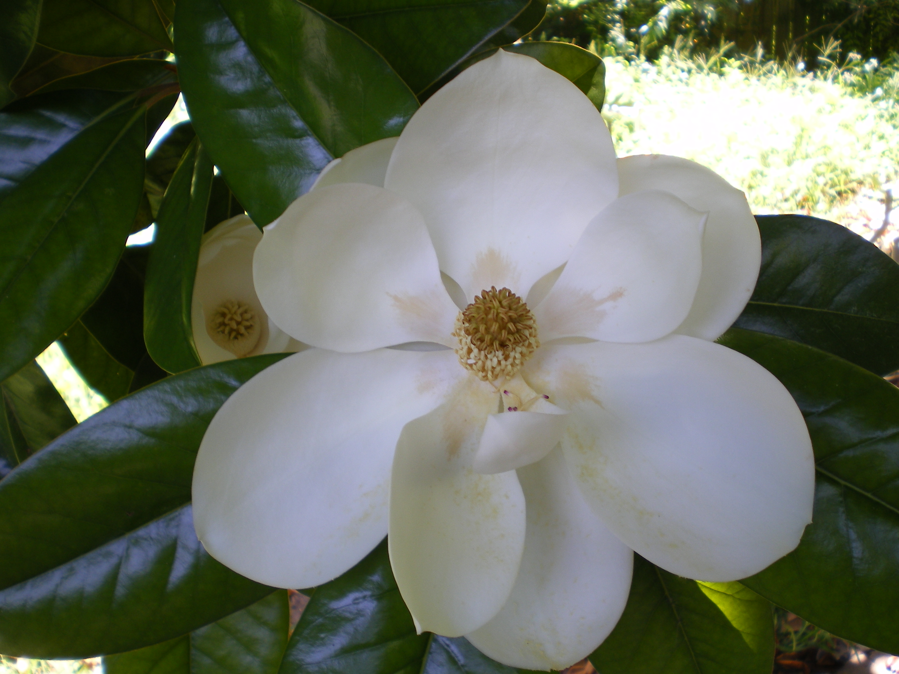 Used by permission of Alan P. Van Dyke.